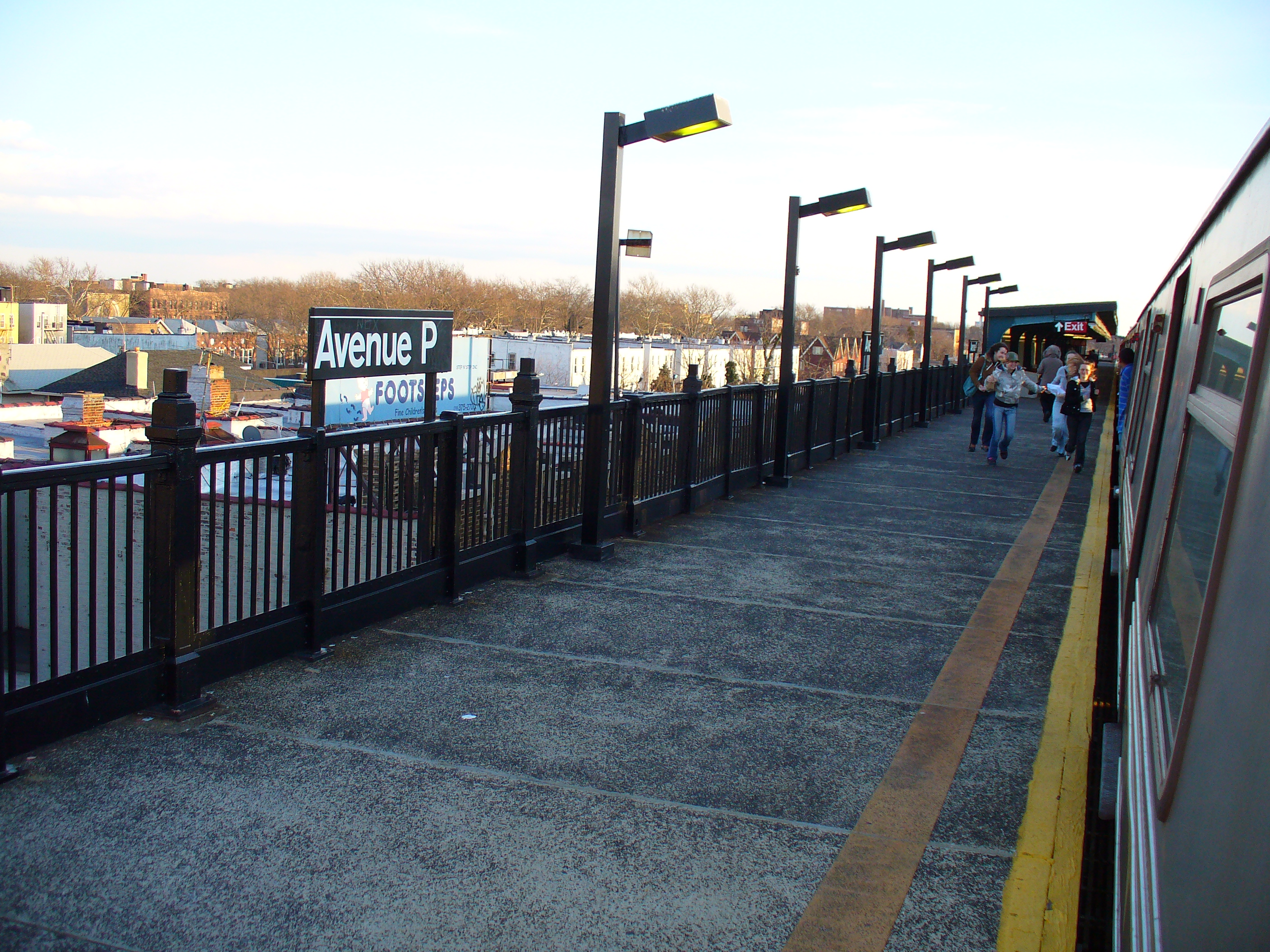 Avenue P F Line NYC Subway Station by David Shankbone